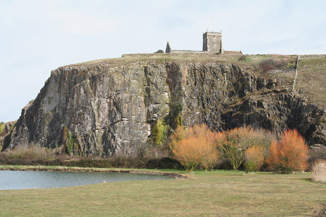 Weston-super-Mare: Old St Nicholas, Uphill A Norman structure with a tower rebuilt in the late middle ages on a hill overlooking the village. Uphill gained a new church in 1844, nearer the manor and the village. Looking north-north-east